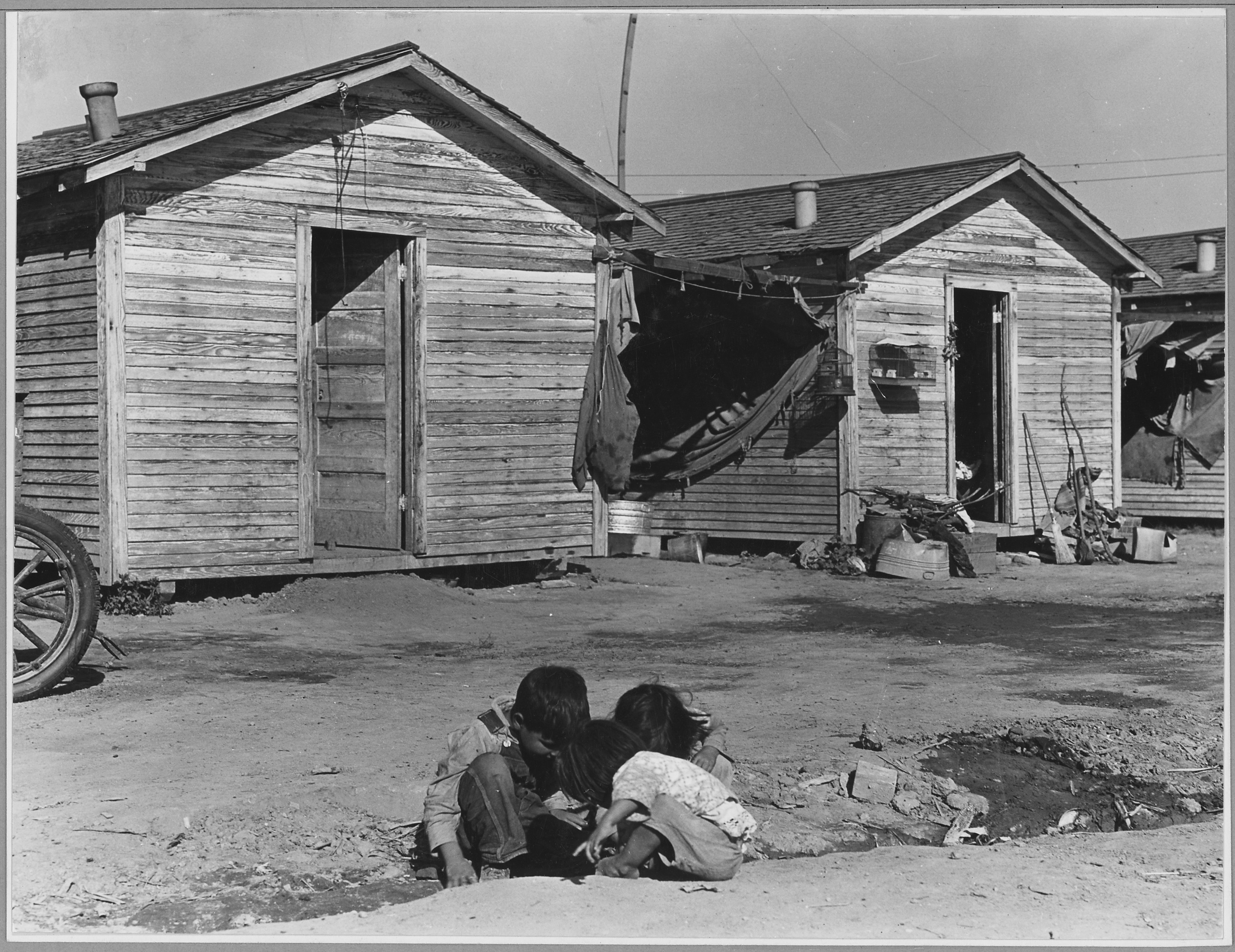 Scope and content: Full caption reads as follows: Corcoran, San Joaquin Valley California. Company housing for Mexican cotton pickers on large ranch.